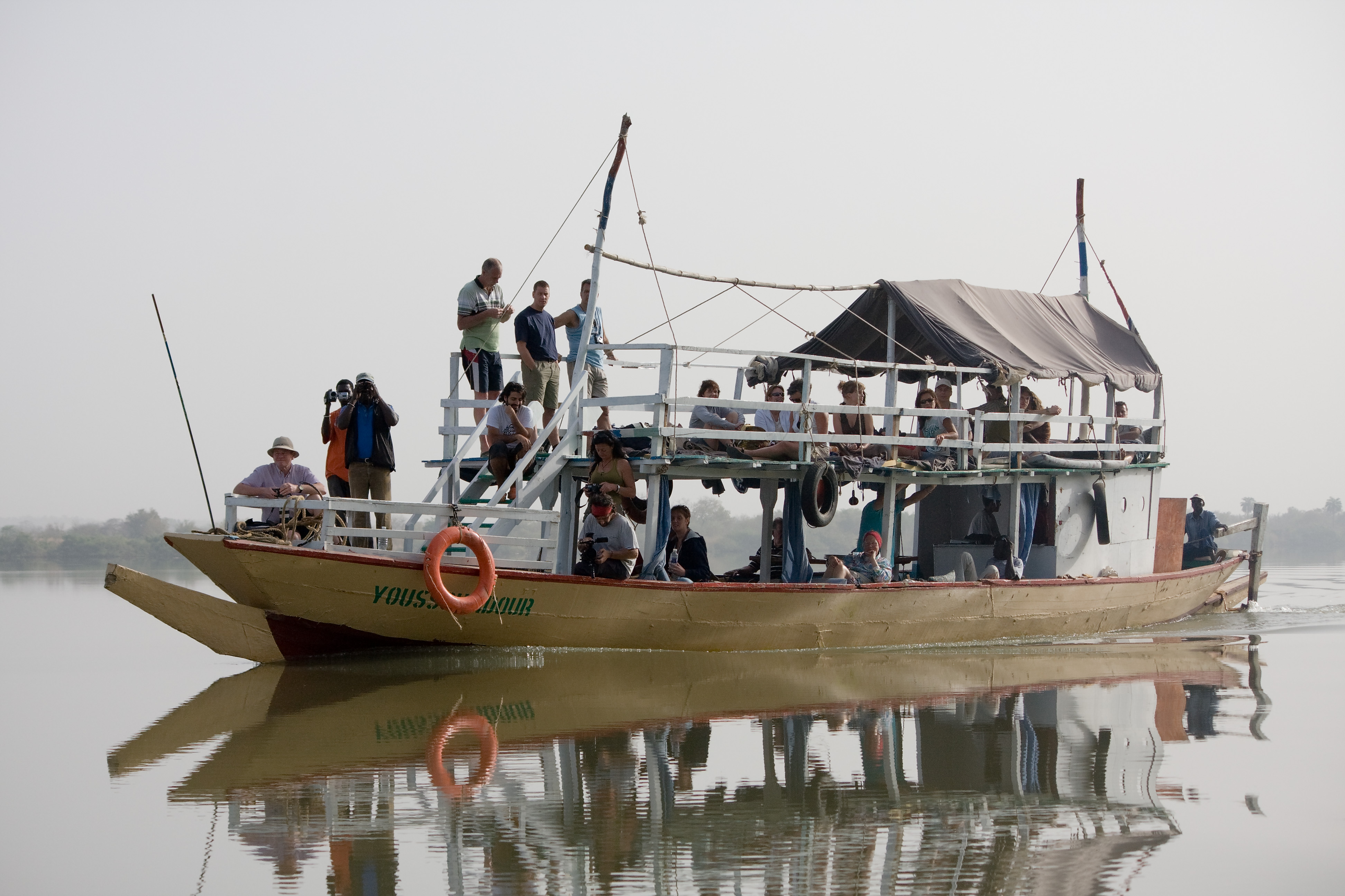 Tourist boat on Gambia river